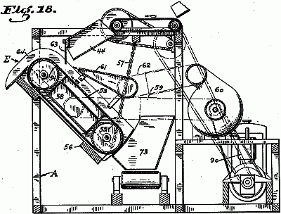 This is a drawing from Thys's patent on a hops-picking machine licensed to Brulotte and involved in the case Brulotte v. Thys Co. Other information US Patents are not subject to copyright